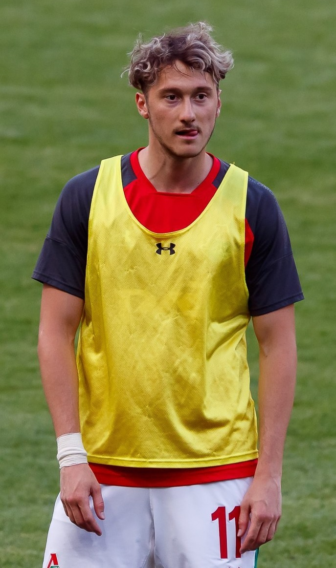 Anton Miranchuk with FC Lokomotiv Moscow before the game against PFC Krylia Sovetov Samara.